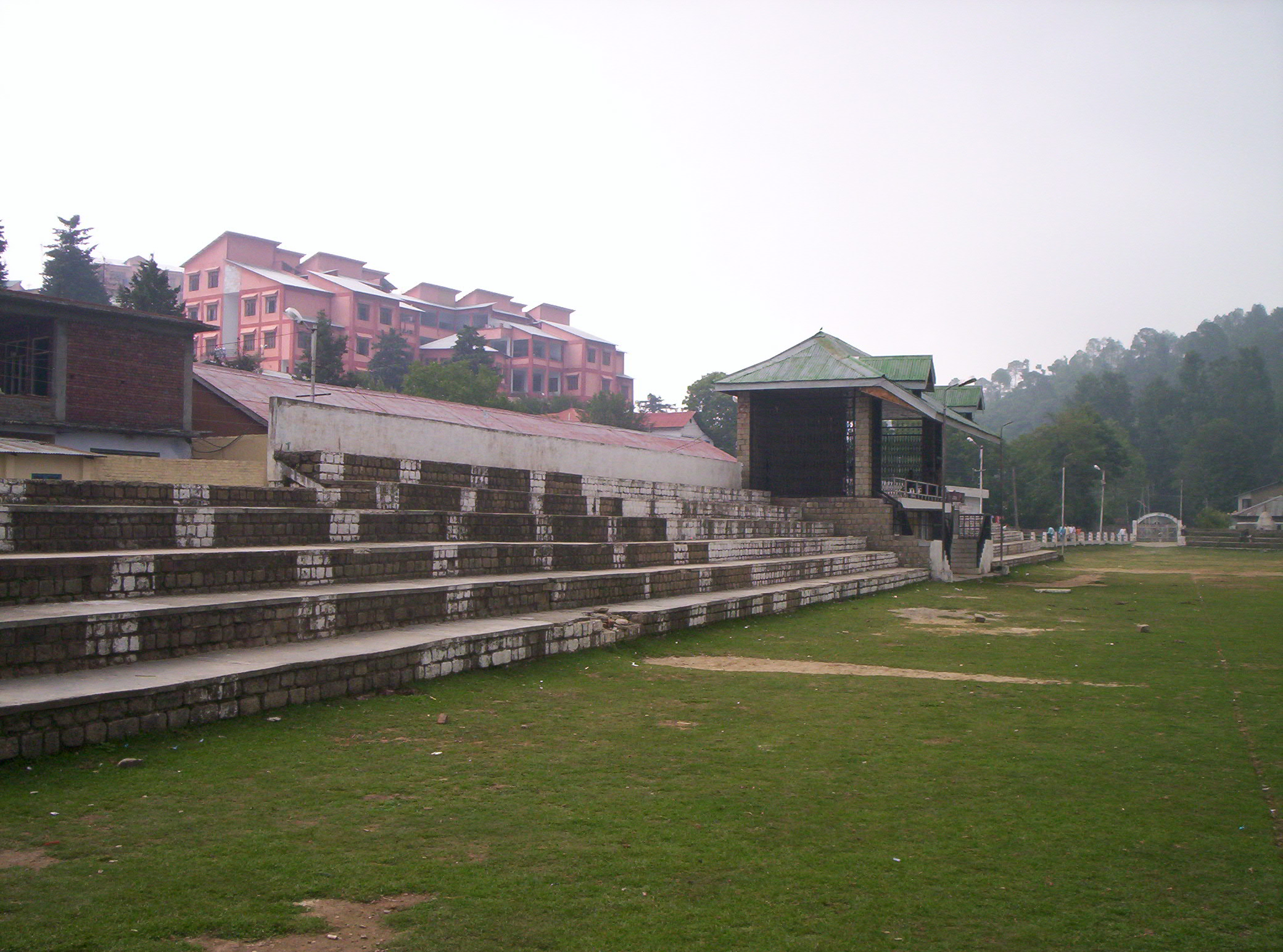 Banikhet Paddar Ground near Kendriya Vidyalaya and Naag Mandir